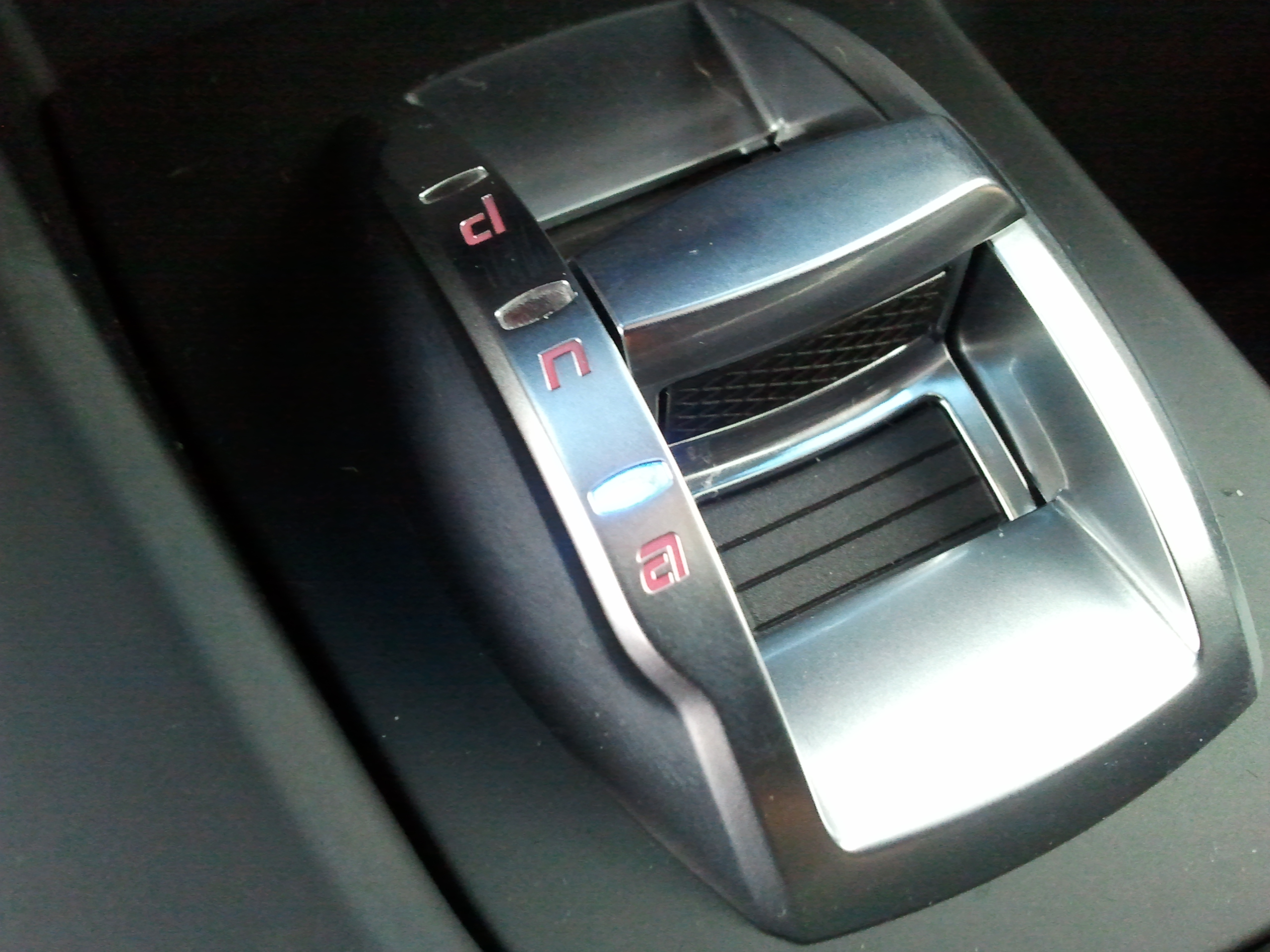 Manettino All weather